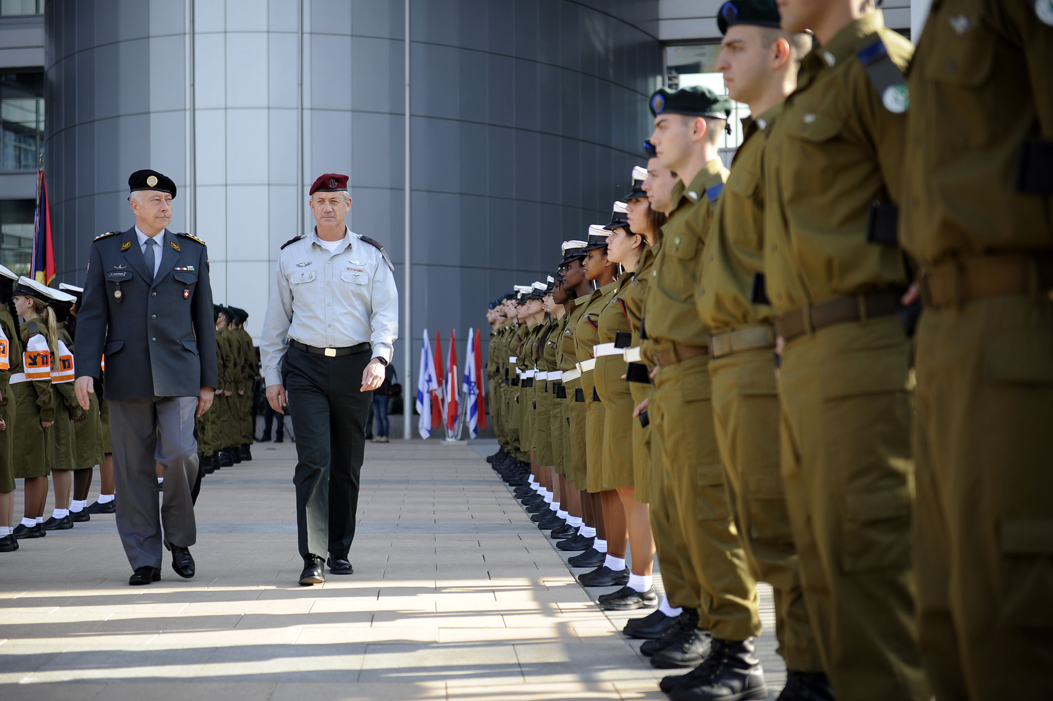 November 27, 2011 The Chief of the Swiss Armed Forces, Lt. Gen. André Blattman, arrived yesterday in Israel as a guest of IDF Chief of General Staff Lt. Gen. Benny Gantz. His visit reflects the strong Israel-Switzerland security relationship. On his first visit to Israel, Lt. Gen. Blattman will meet with his counterpart, Lt. Gen. Gantz, as well as Defense Minister Ehud Barak. The general's visit follows a 2010 trip to Israel by the Swiss Defense Minister. The Israel Defense Forces Facebook page The Israel Defense Forces blog Follow us on Twitter